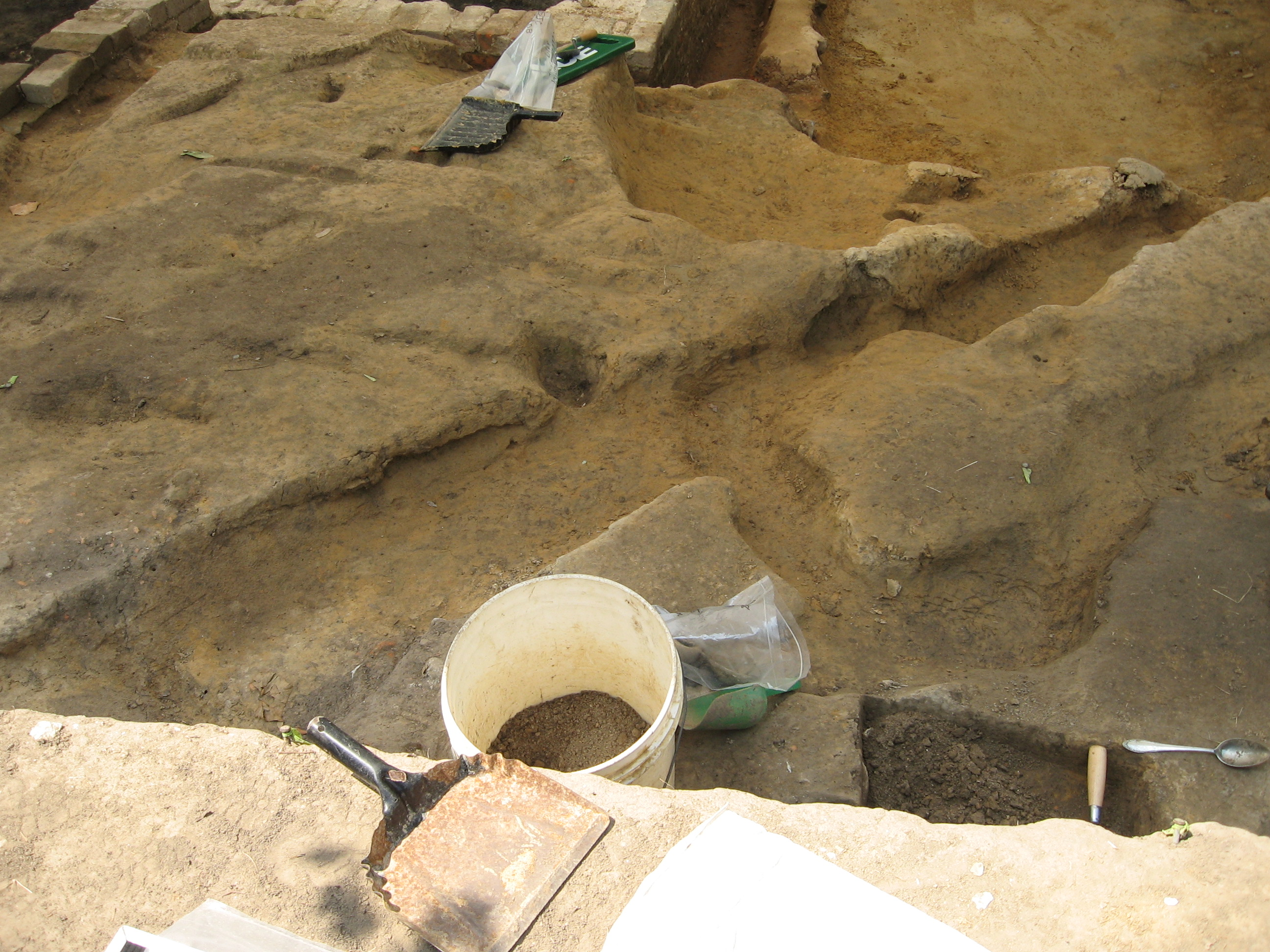 The Ravenscroft site at Williamsburg, showing the scars of Jimmy Knight's famous methods.